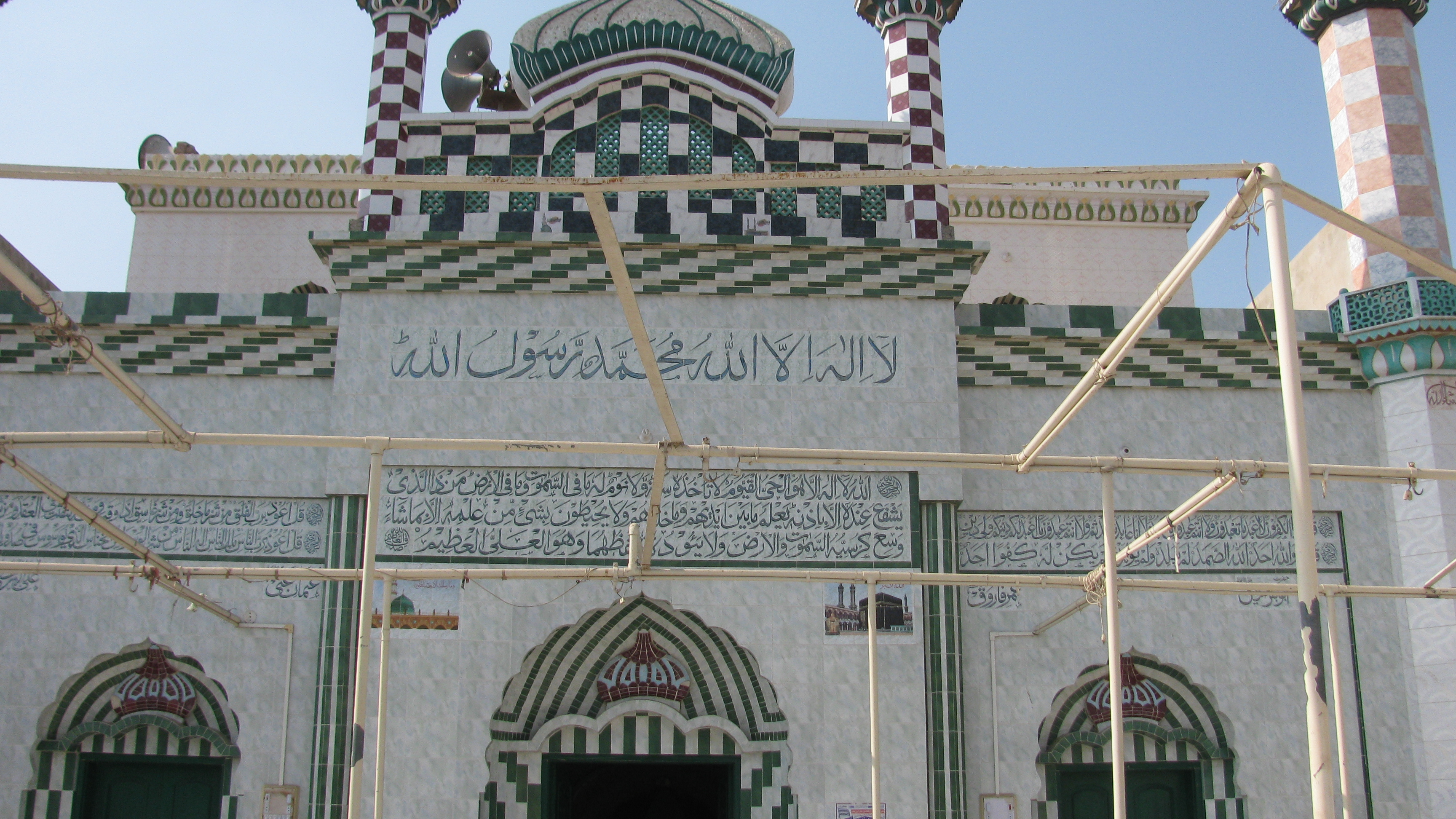 It is the picture of Masjid.